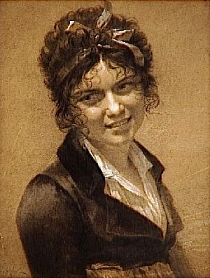 Portrait of Marie Françoise Constance Mayer La Martinière (1775-1821)